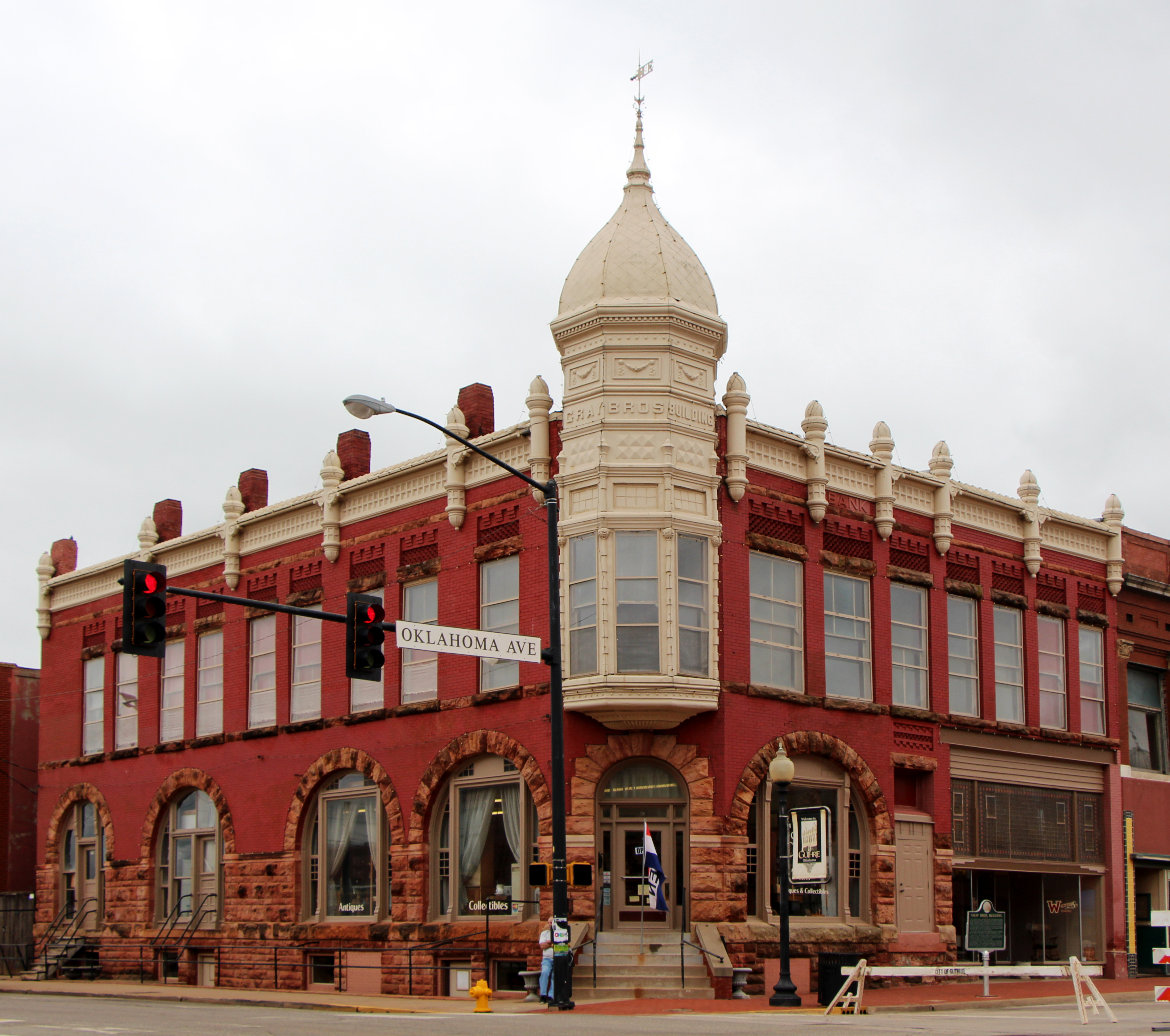 Gray Brothers Building, Guthrie, Oklahoma